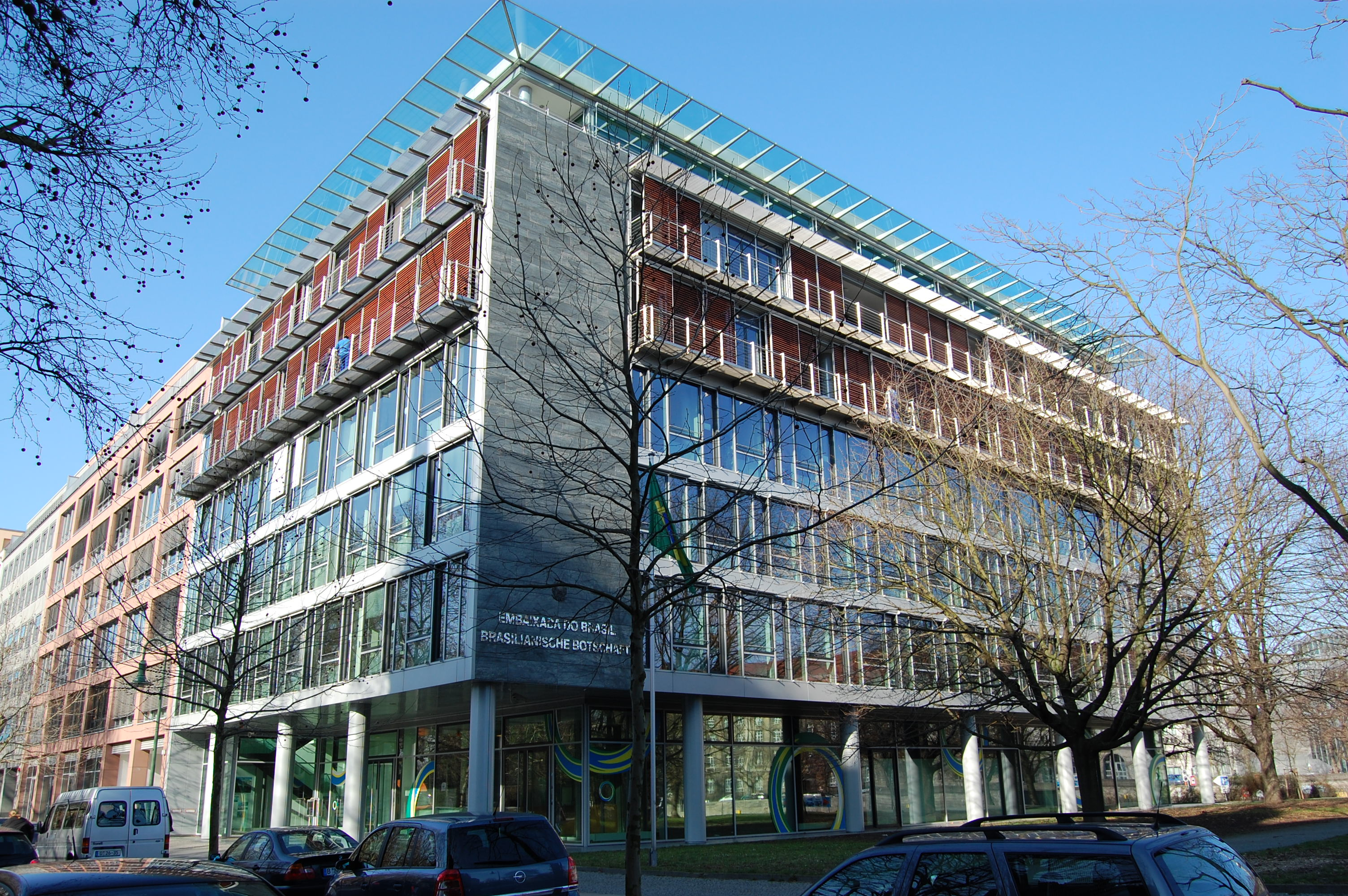 Brazilian Embassy in Berlin